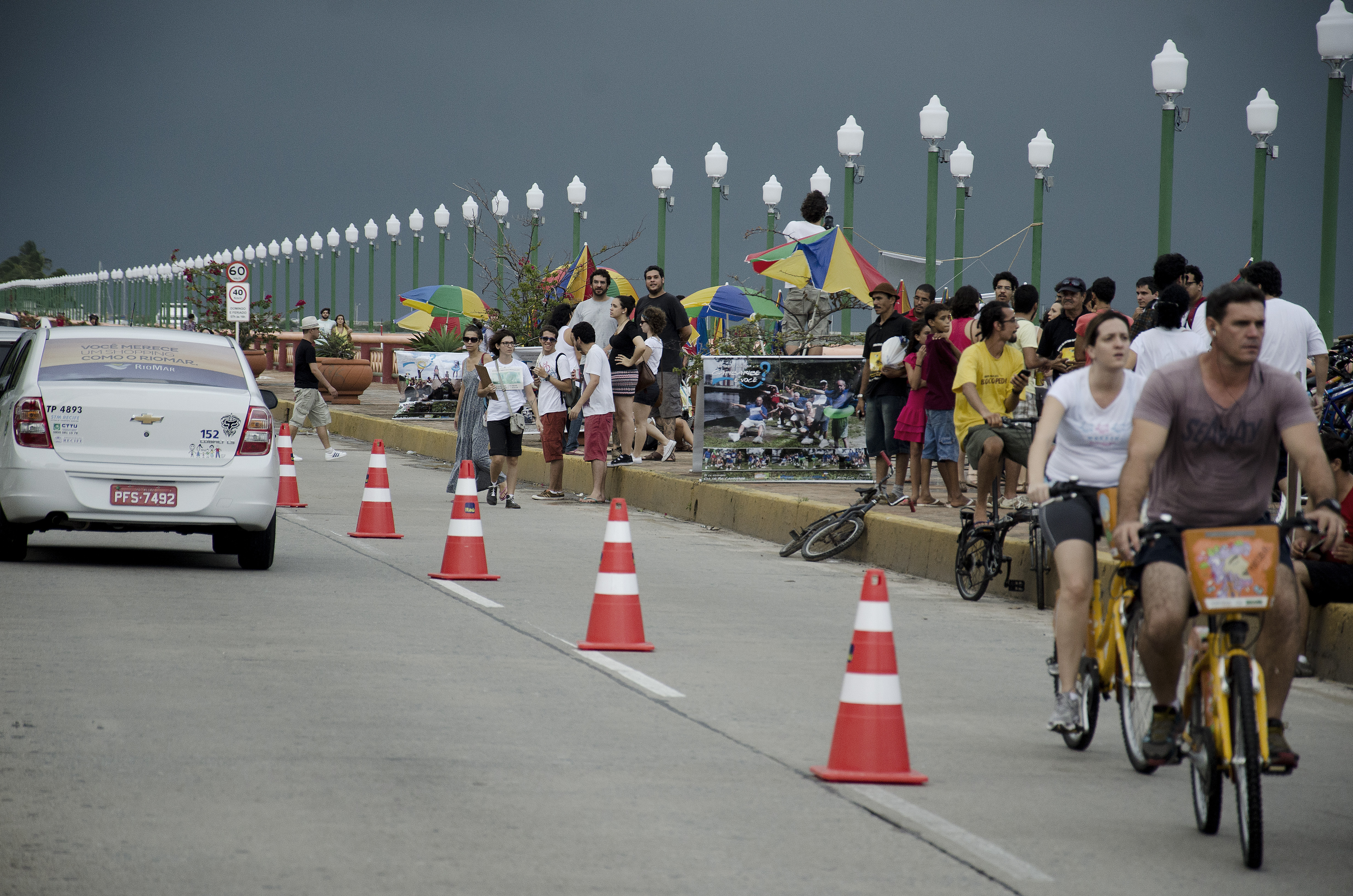 José Estelita Wharf - Recife - Pernambuco - Brazil